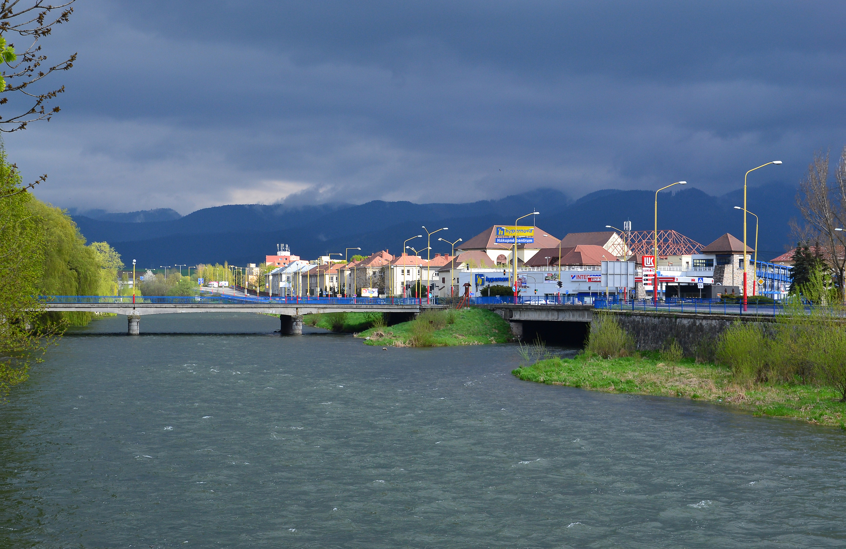 Váh and Revúca rivers in Ružomberok, Slovakia